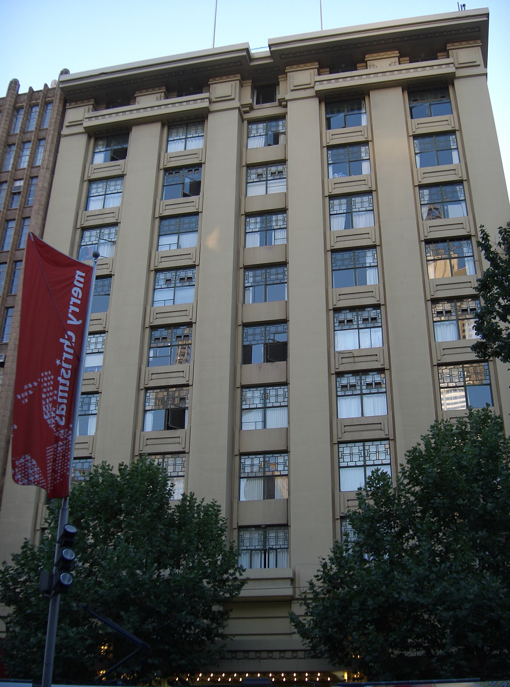 The Capitol Theatre in Swanston Street, Melbourne was opened in 1924. It was designed by architects Walter Burley Griffin and Marion Mahony Griffin, and is considered one of his finest works. Architect Robin Boyd described it thus: "The best cinema that was ever built or is ever likely to be built". The building is now owned by RMIT University.